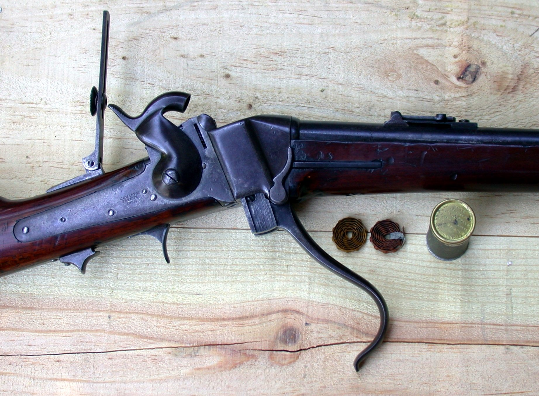 Sharps Carbine Model 1852 "Slanting Breech" open, Maynard tape primers